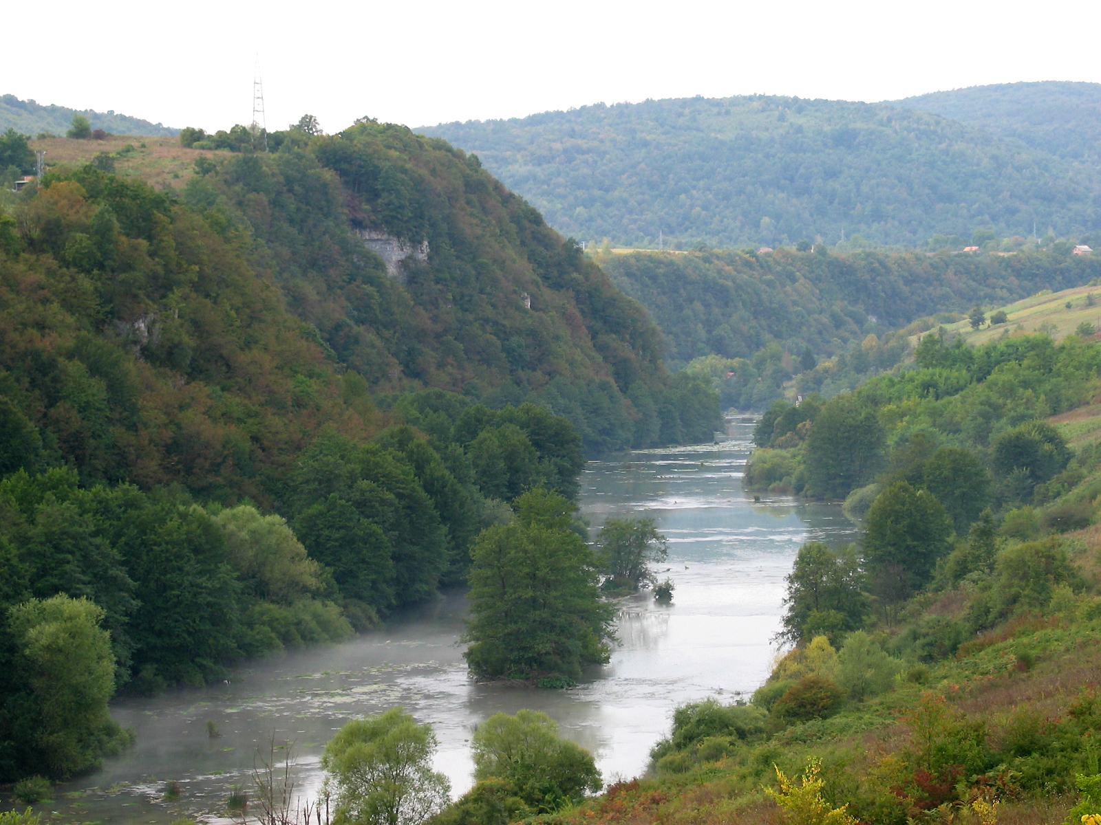 Picture taken on September 15, 2004 by Apscoradiales with Canon PowerShot G3 (fully automatic mode)